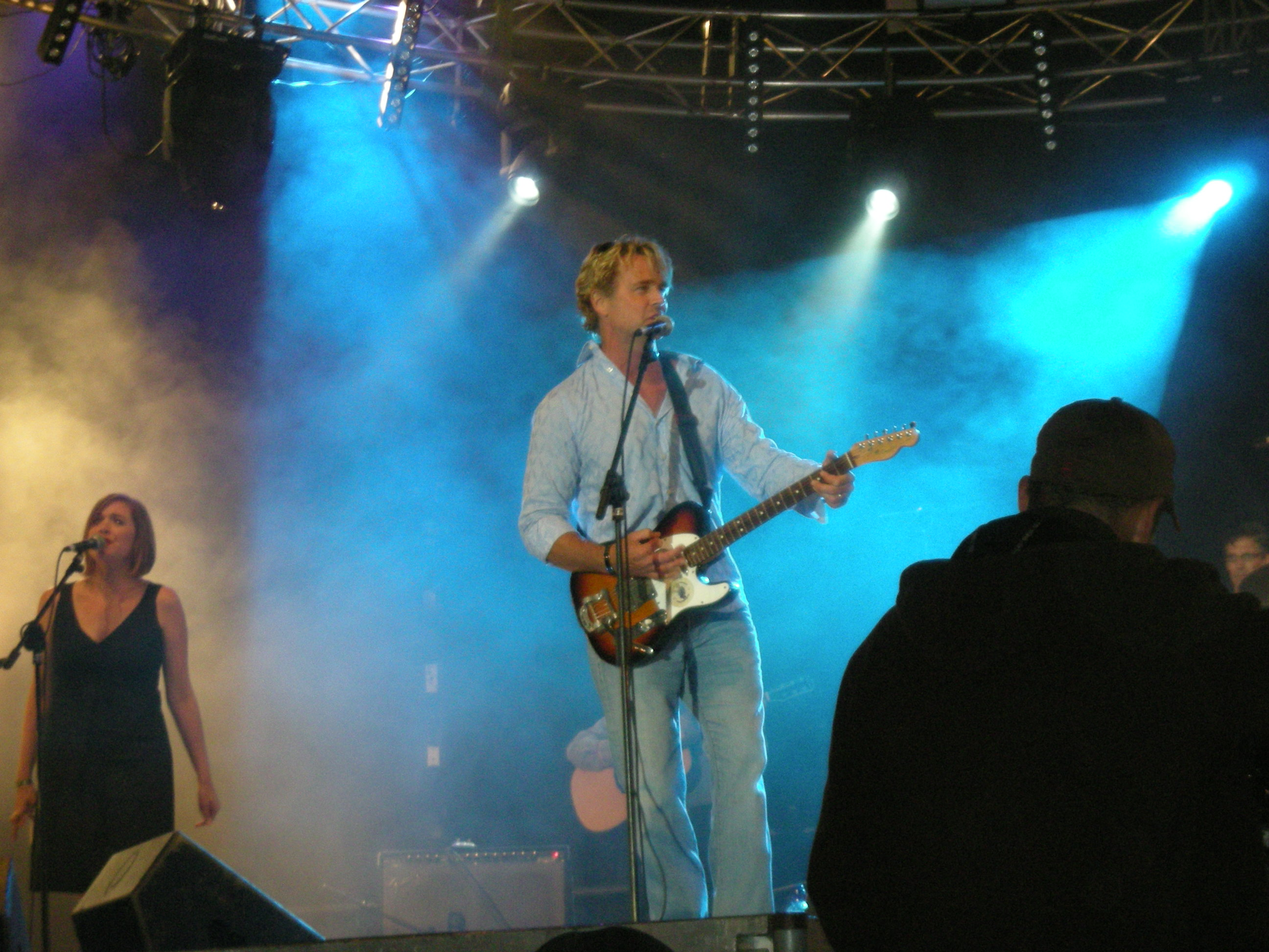 John Schneider Live on stage at Country Music Festival de Mirande, Midi-Pyrenees, France on 14/07/2008.